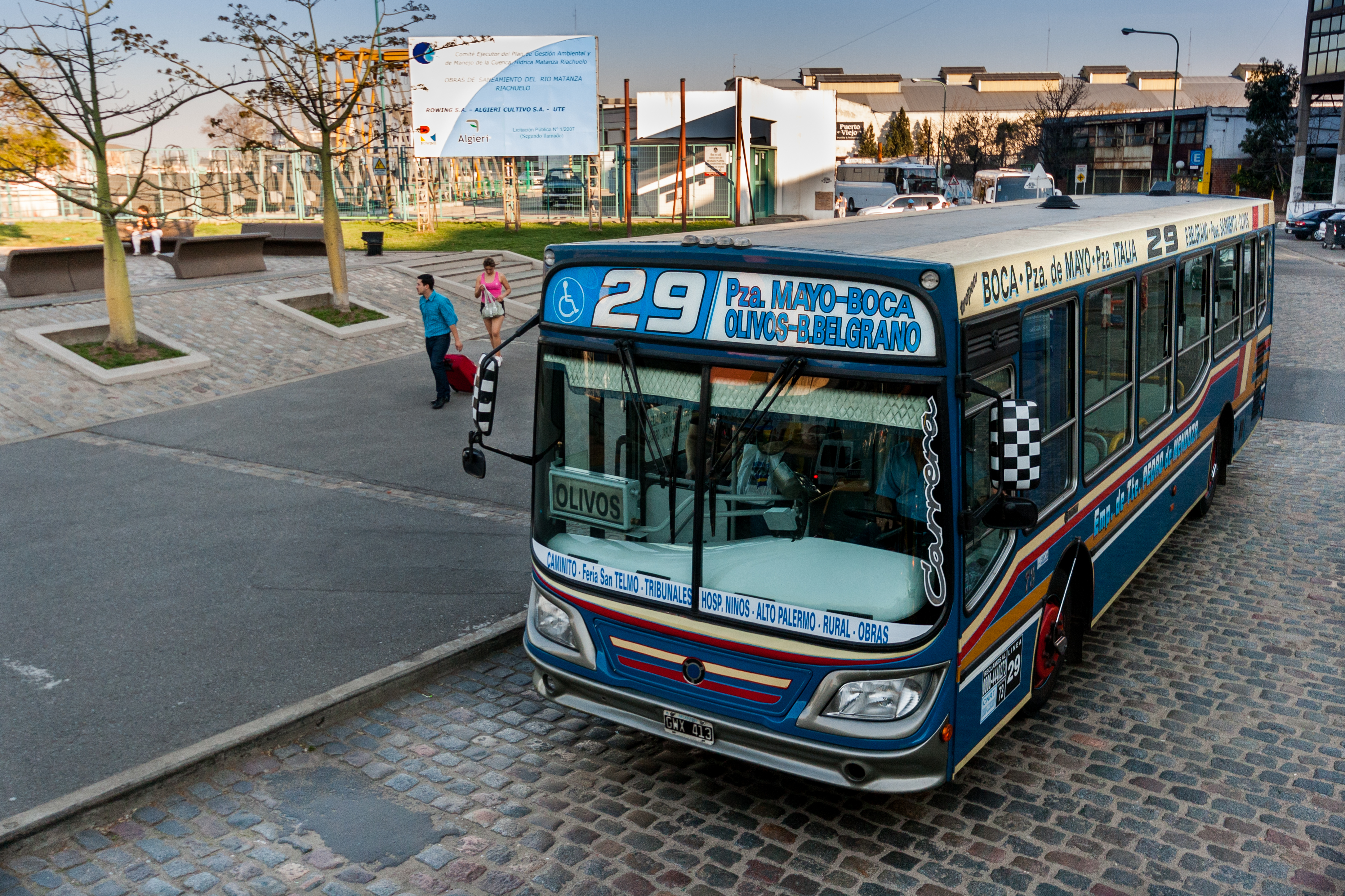 Italbus Tropea bus (reg. GWX 413, #73) with Mercedes Benz OH1315L-sb chassis in La Boca, Buenos Aires, Argentina. Colectivo, line 29, Empresa de Transportes Pedro de Mendoza C.I.S.A. operator.